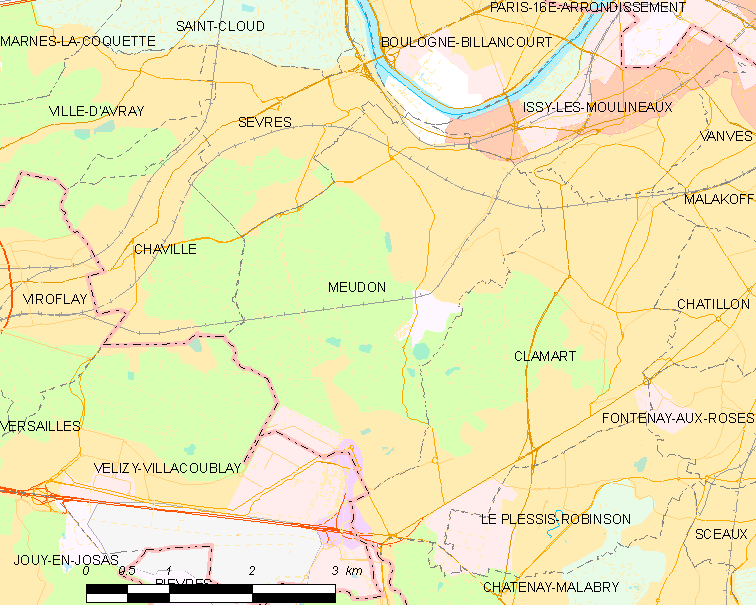 Map of French municipality Meudon